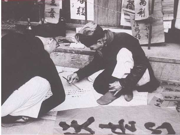 Writing